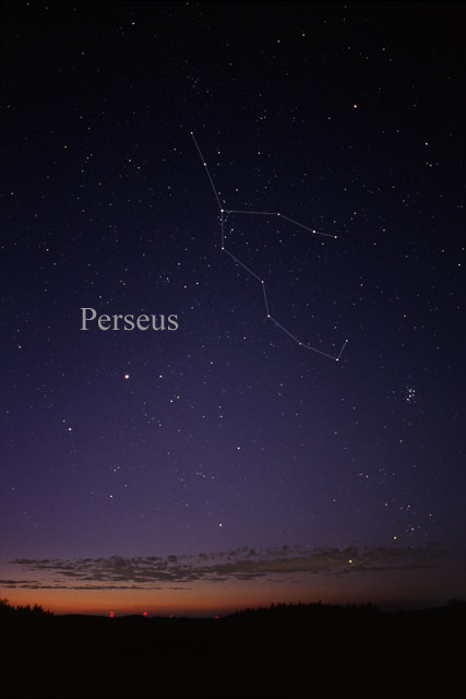 Photography of the constellation Perseus